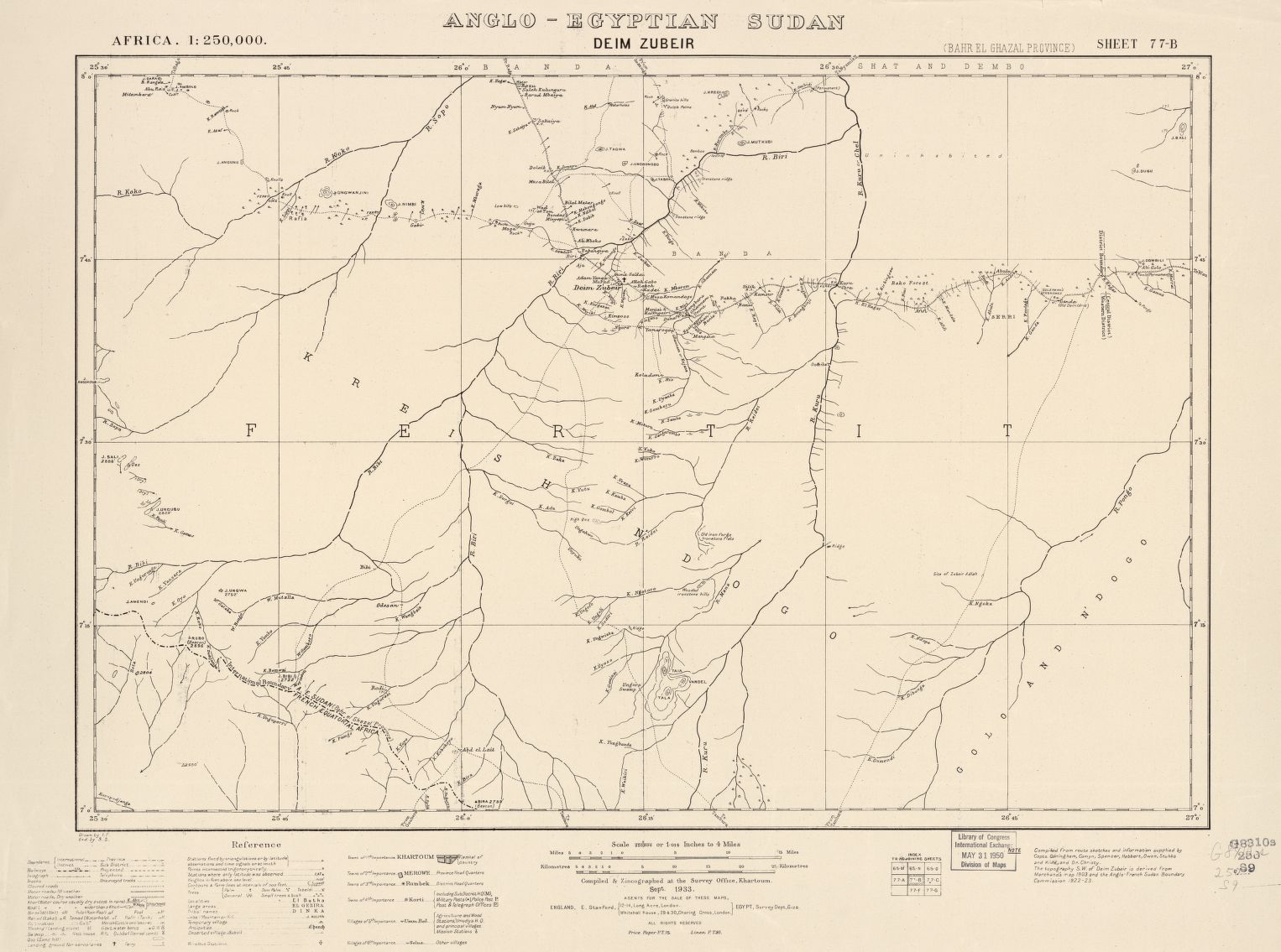 Sudan 1:250,000 map of the Survey Office / Maṣlaḥat al-Misāḥah of the Anglo-Egyptian Condominium